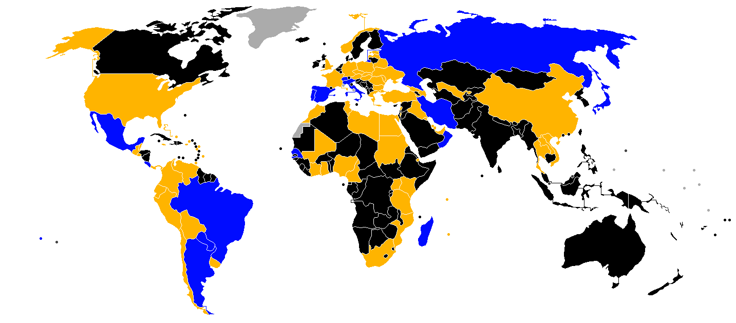 The result of worldwide qualification tournaments for the FIFA Beach Soccer World Cup 2015